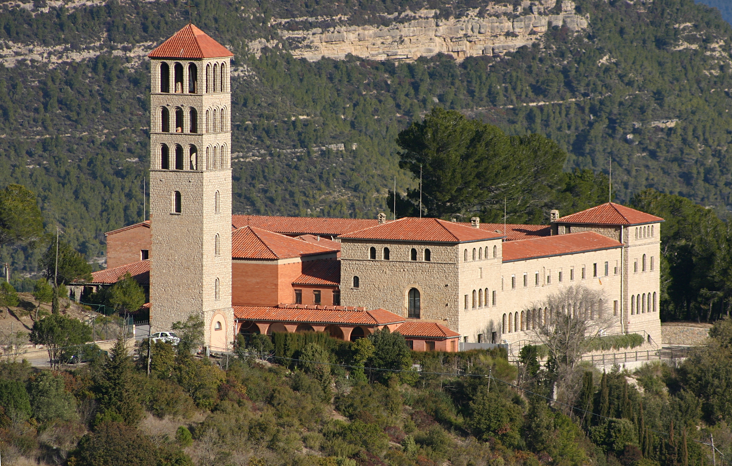 Monastery of St. Benedict, Montserrat, Spain